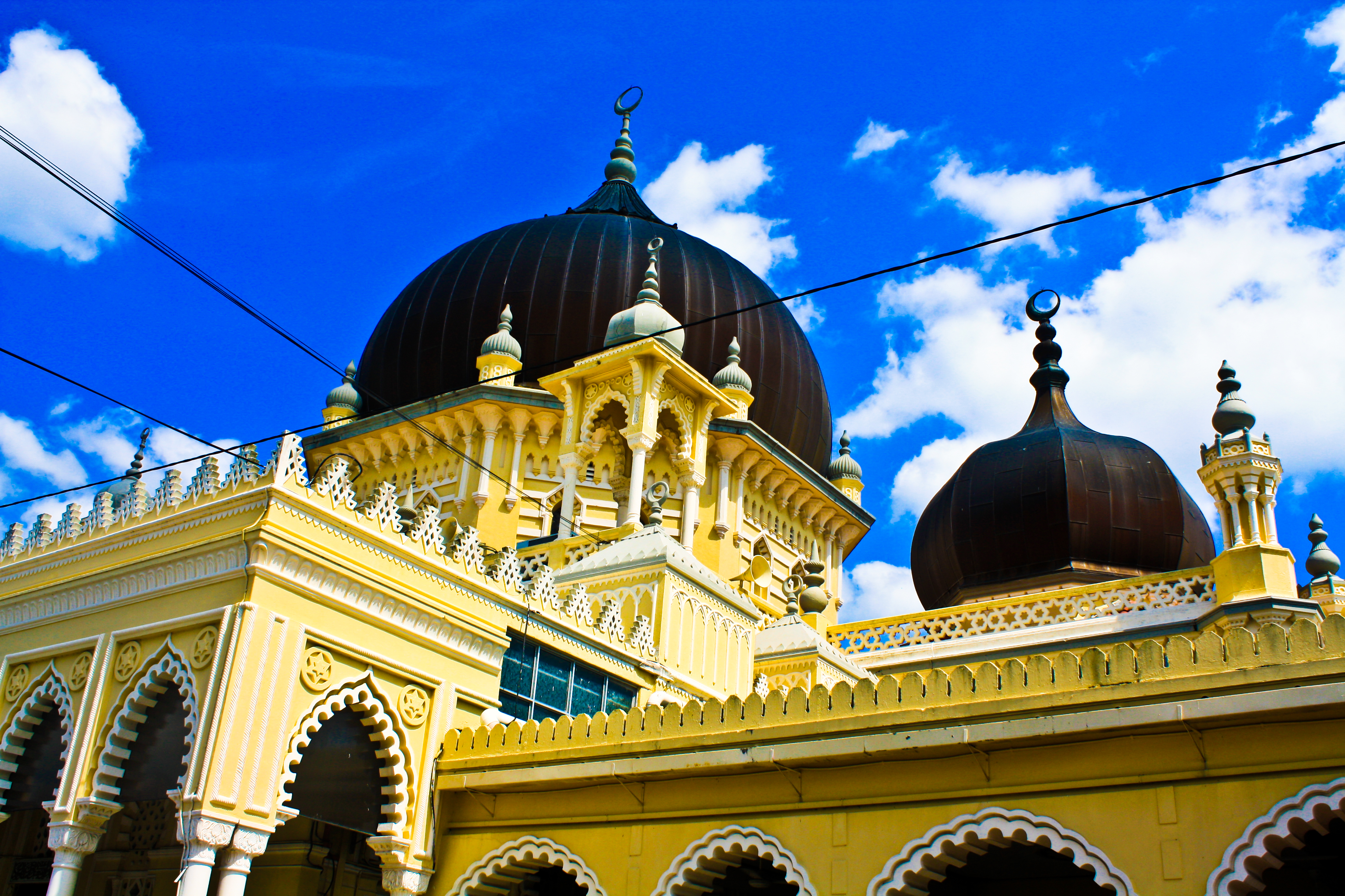 Zahir Mosque in Alor Setar, Malaysia